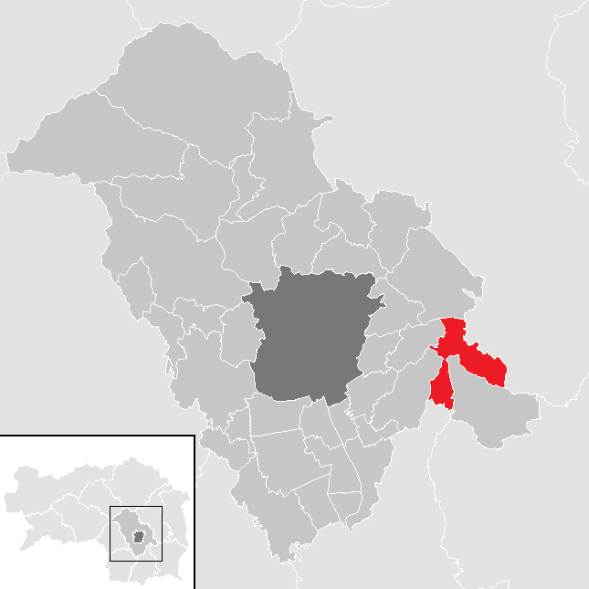 District Graz-Umgebung, Styria